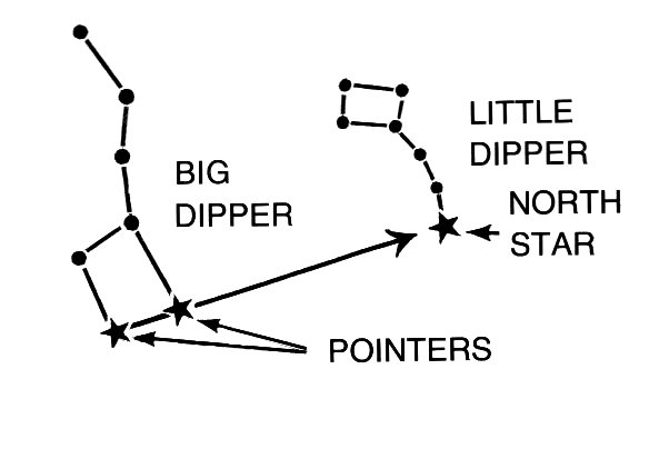 b/w line art drawing of a constellation